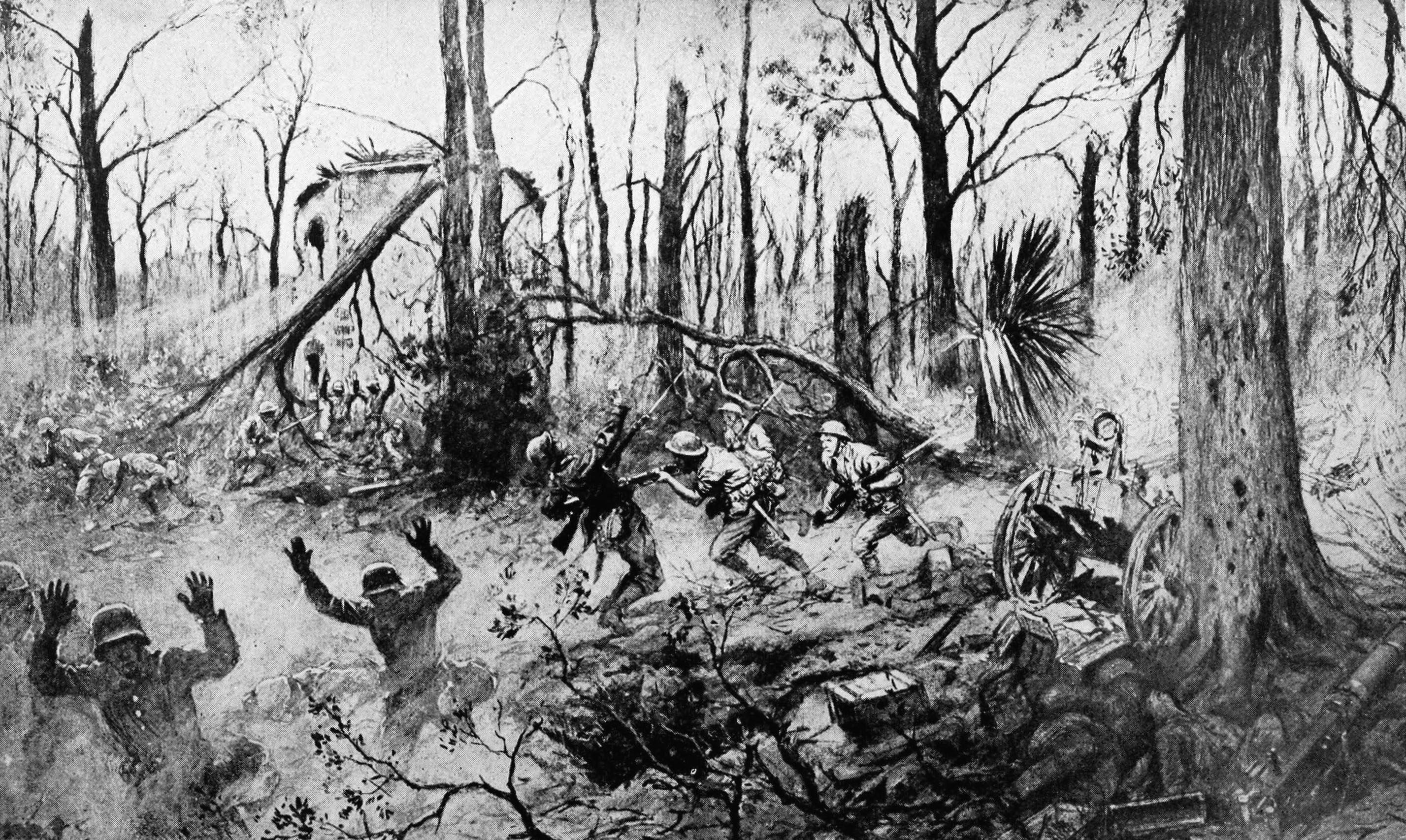 World War I: The fight of the U.S. Marines in Belleau Wood. From the painting by the French artist Georges Scott.